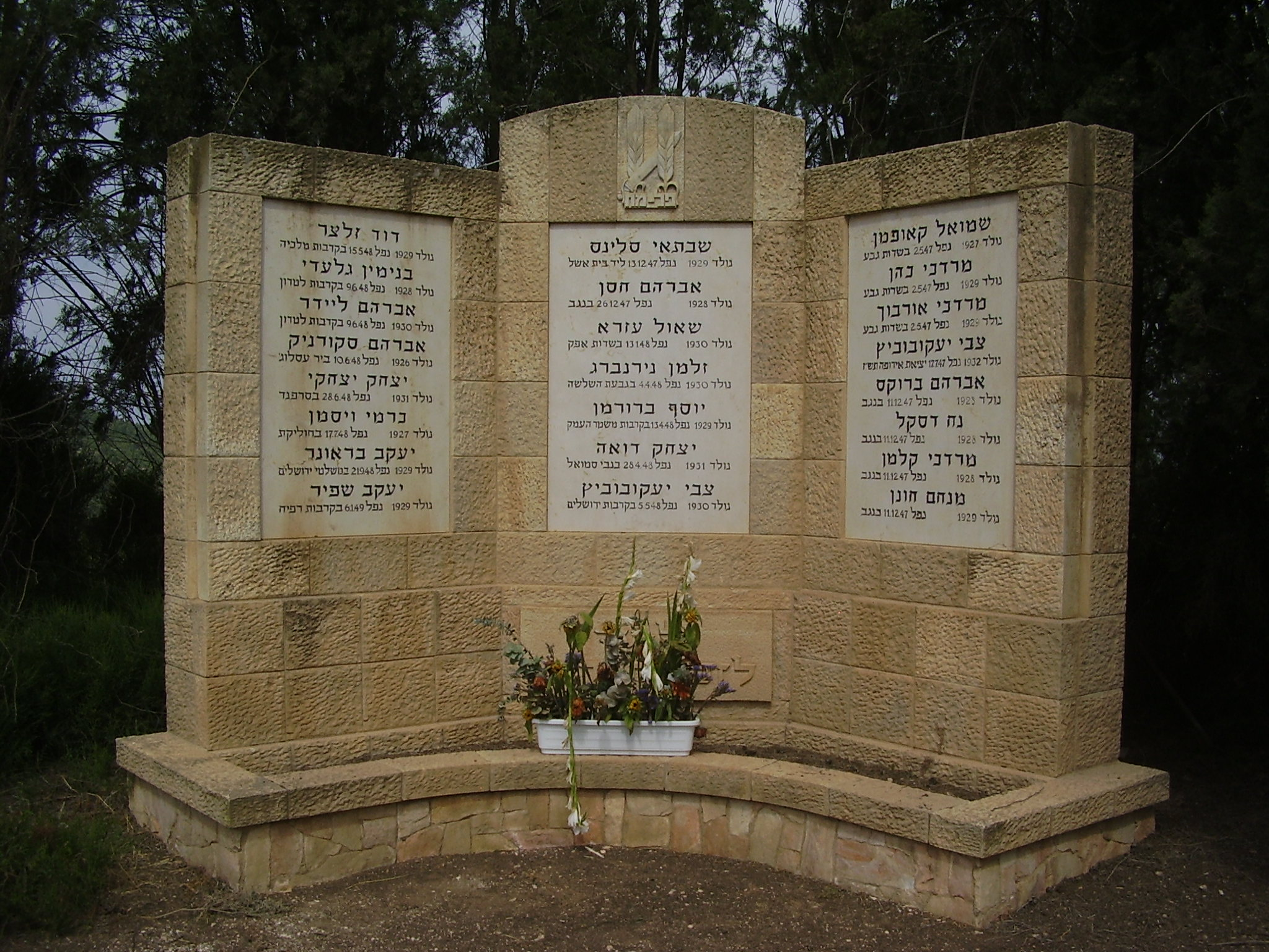 Palmach Memorial in Kibbutz Tzova